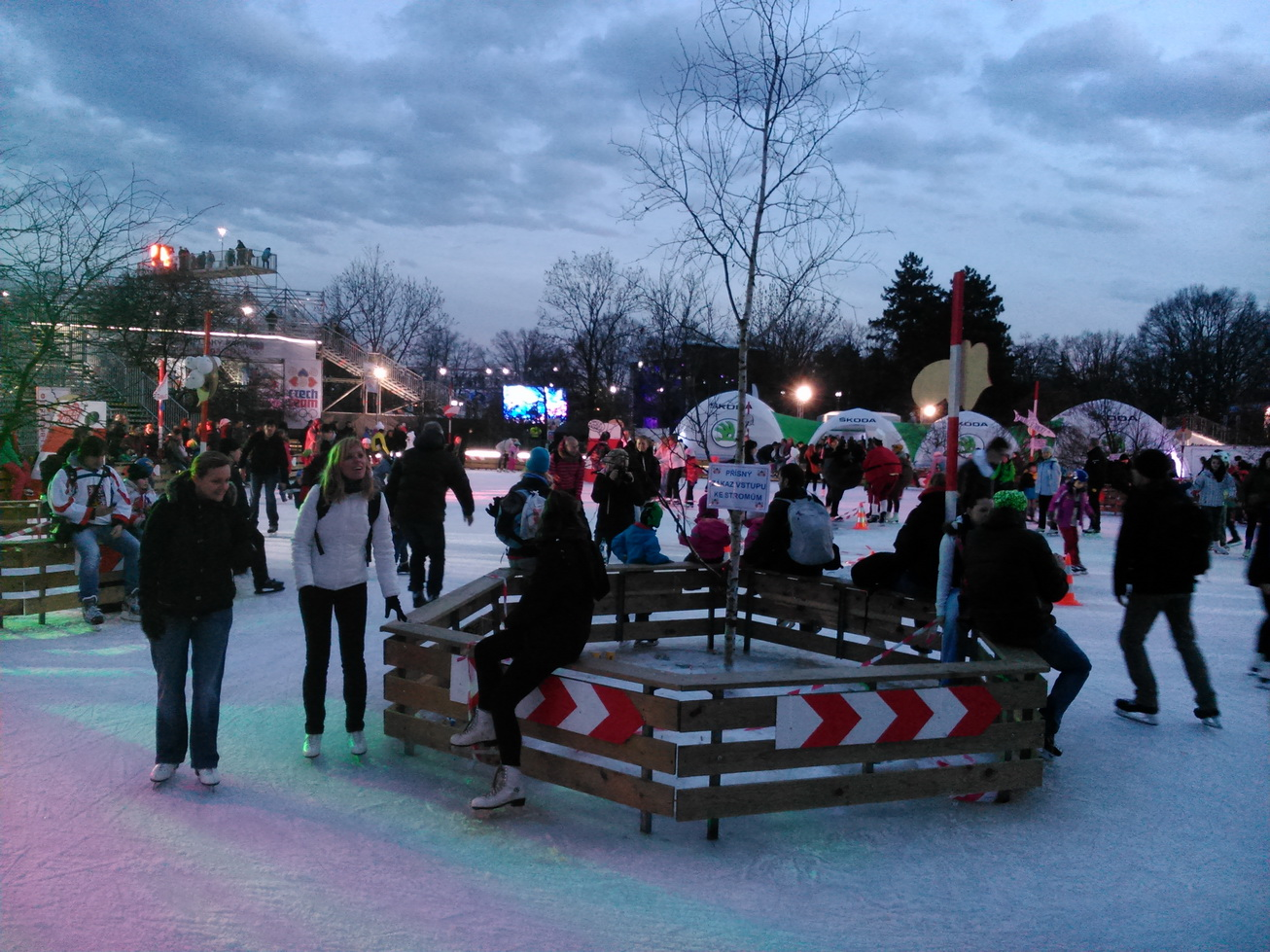 Olympic park Letná (2014)